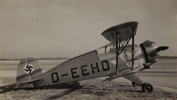 Catalog #: 00076452 Manufacturer: Bucker Designation: BU-133/133c Official Nickname: Jungmeister